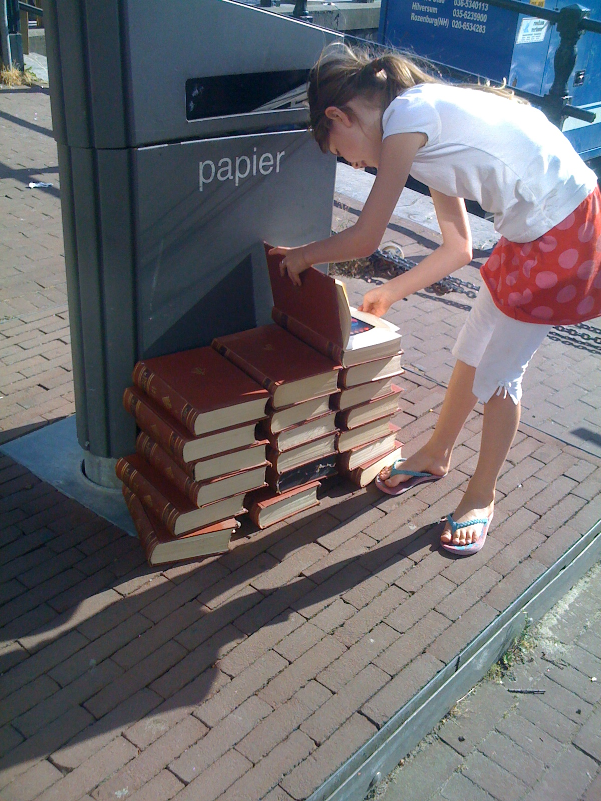 Encyclopedia at the old paper dump